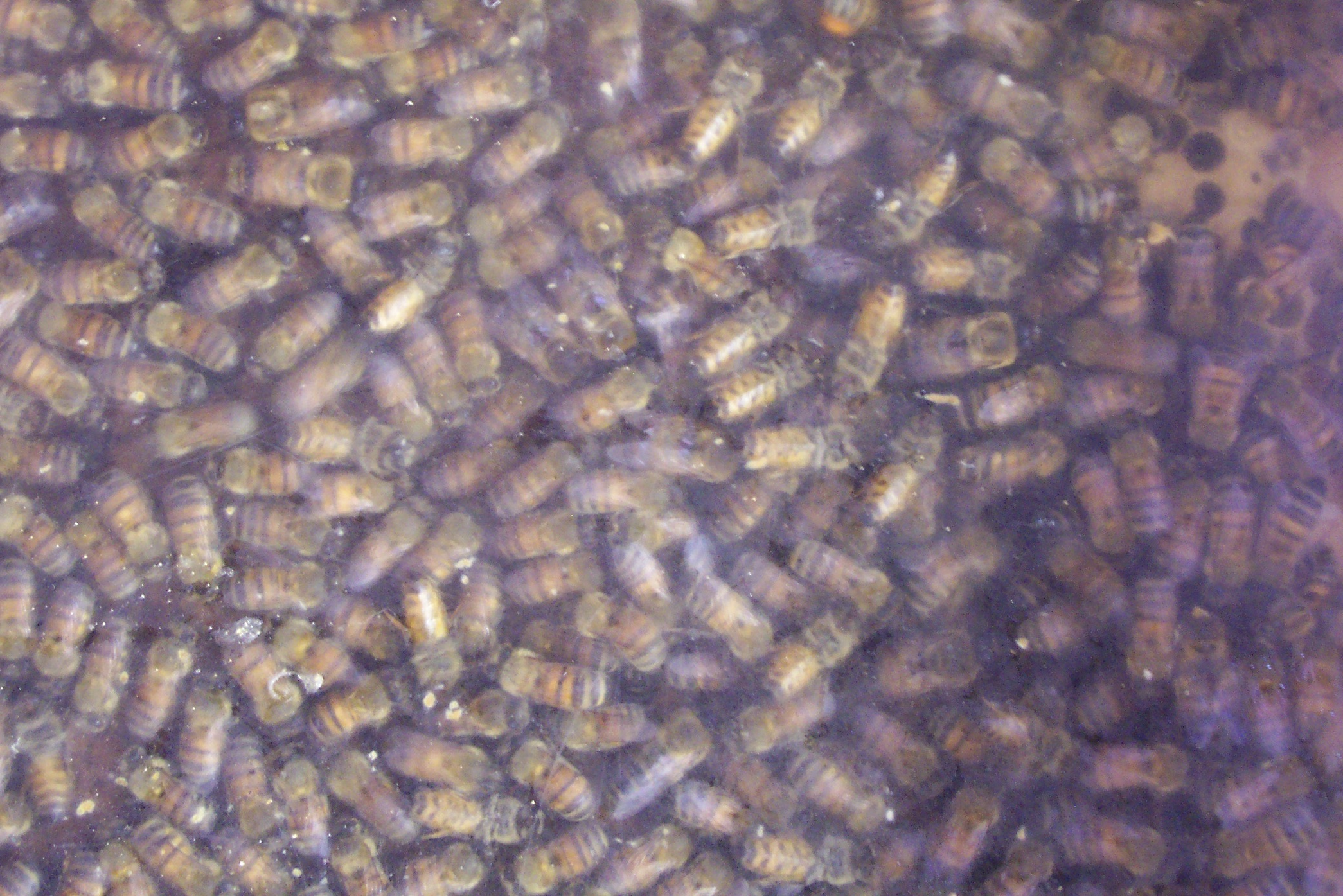 A lot of bees, photographed in Israel